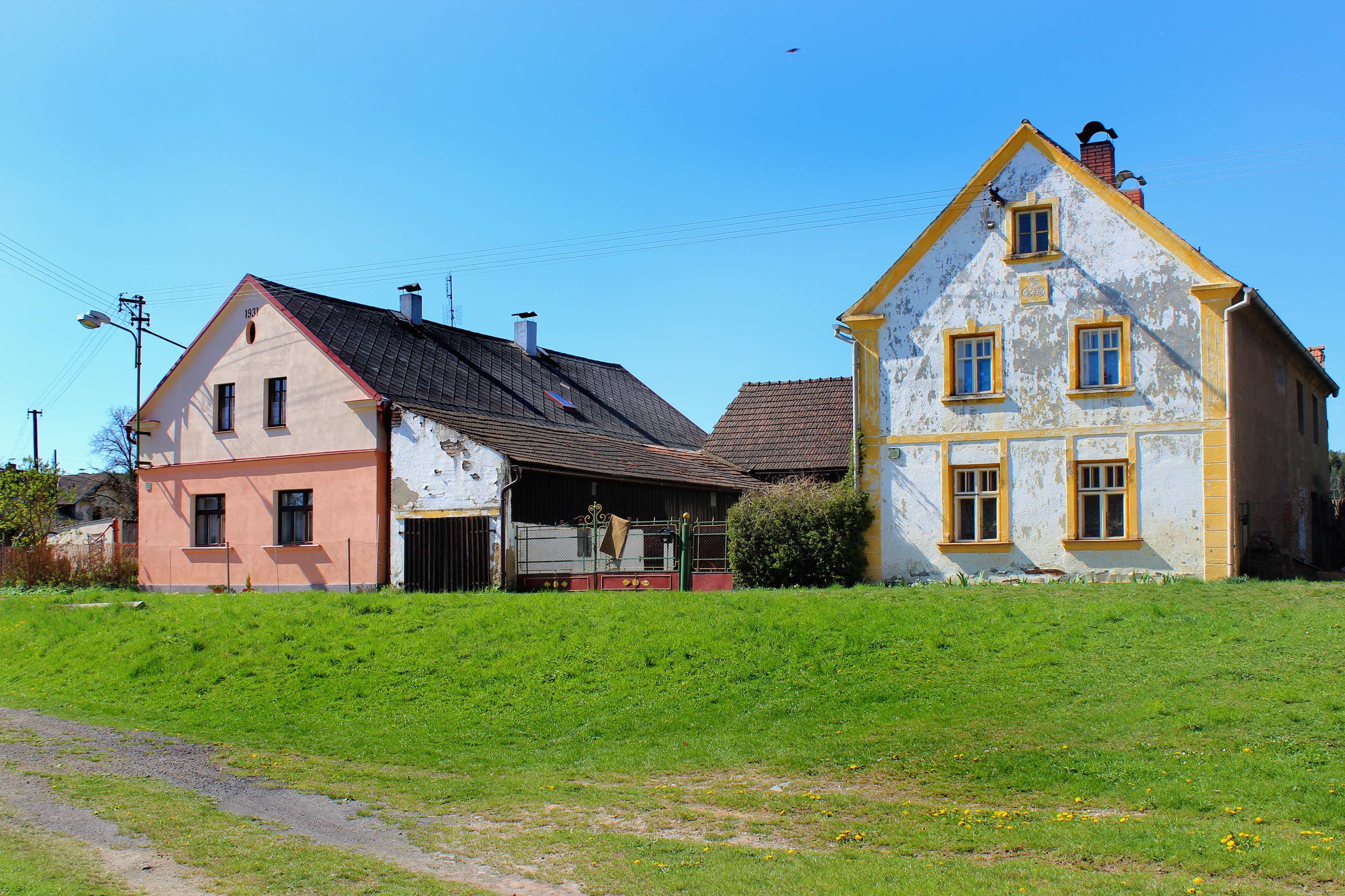 Common in Blahousty, part of Erpužice village, Czech Republic